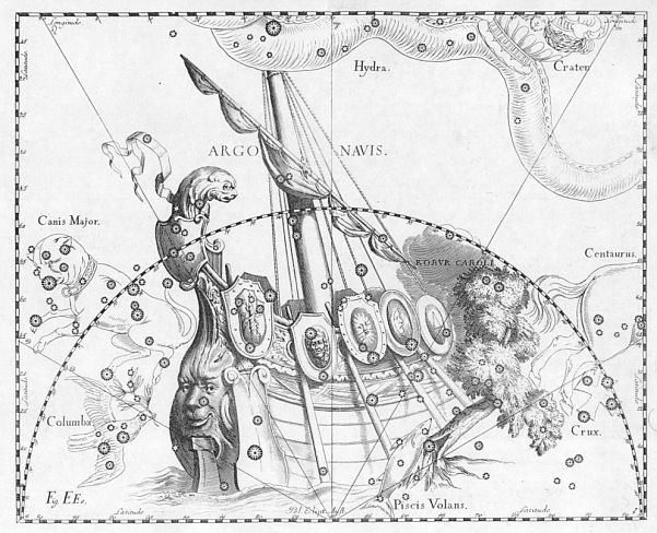 The constellation of Argo Navis from 'Firmamentum Sobiescianum, sive Uranographia by Johannes Hevelius. The view is mirrored following the tradition of celestial globes, showing the celestial sphere in a view from "outside"